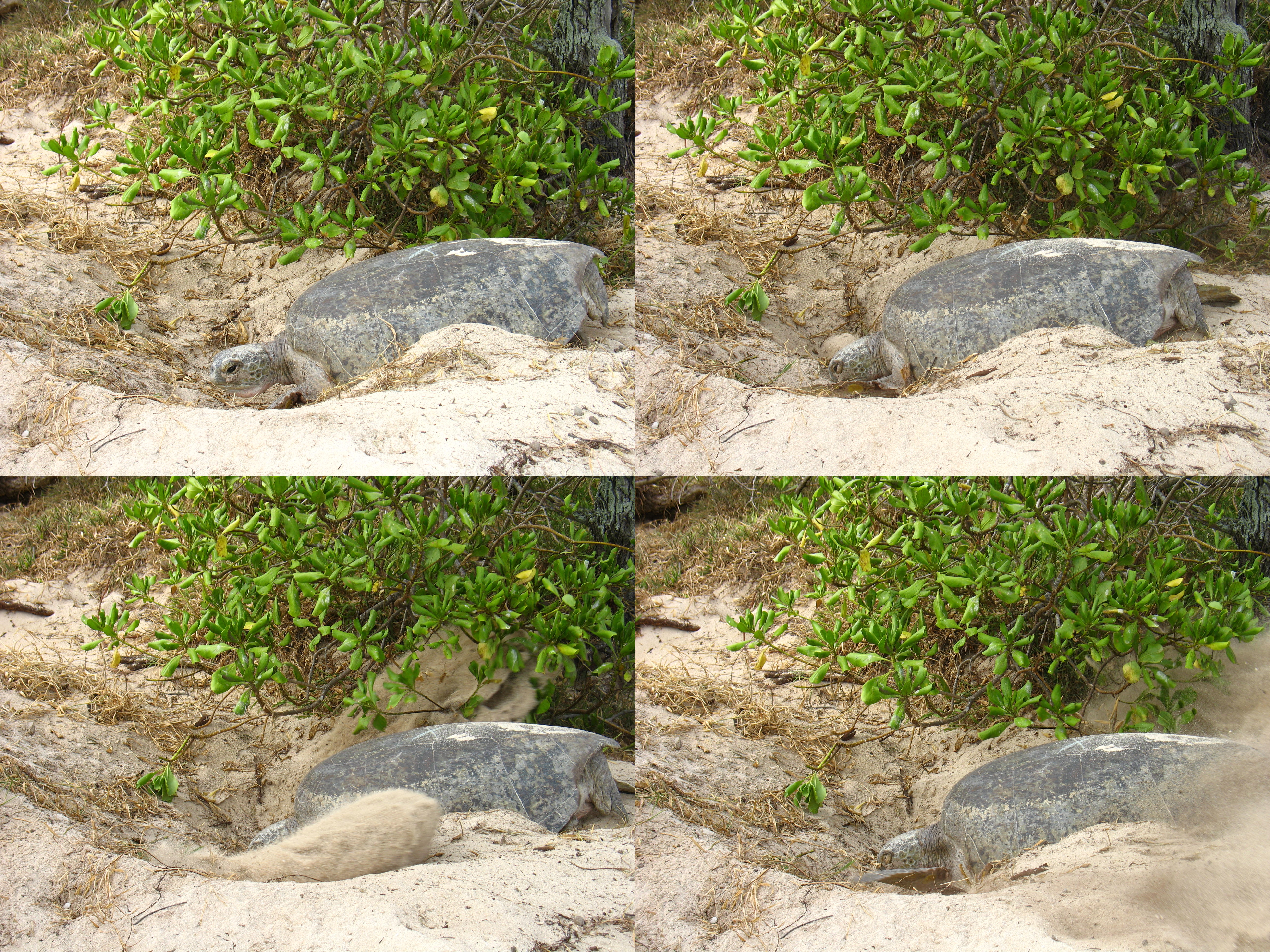 Green turtle (chelonia mydas) attempting to dig a hole for egg laying on Heron Island.